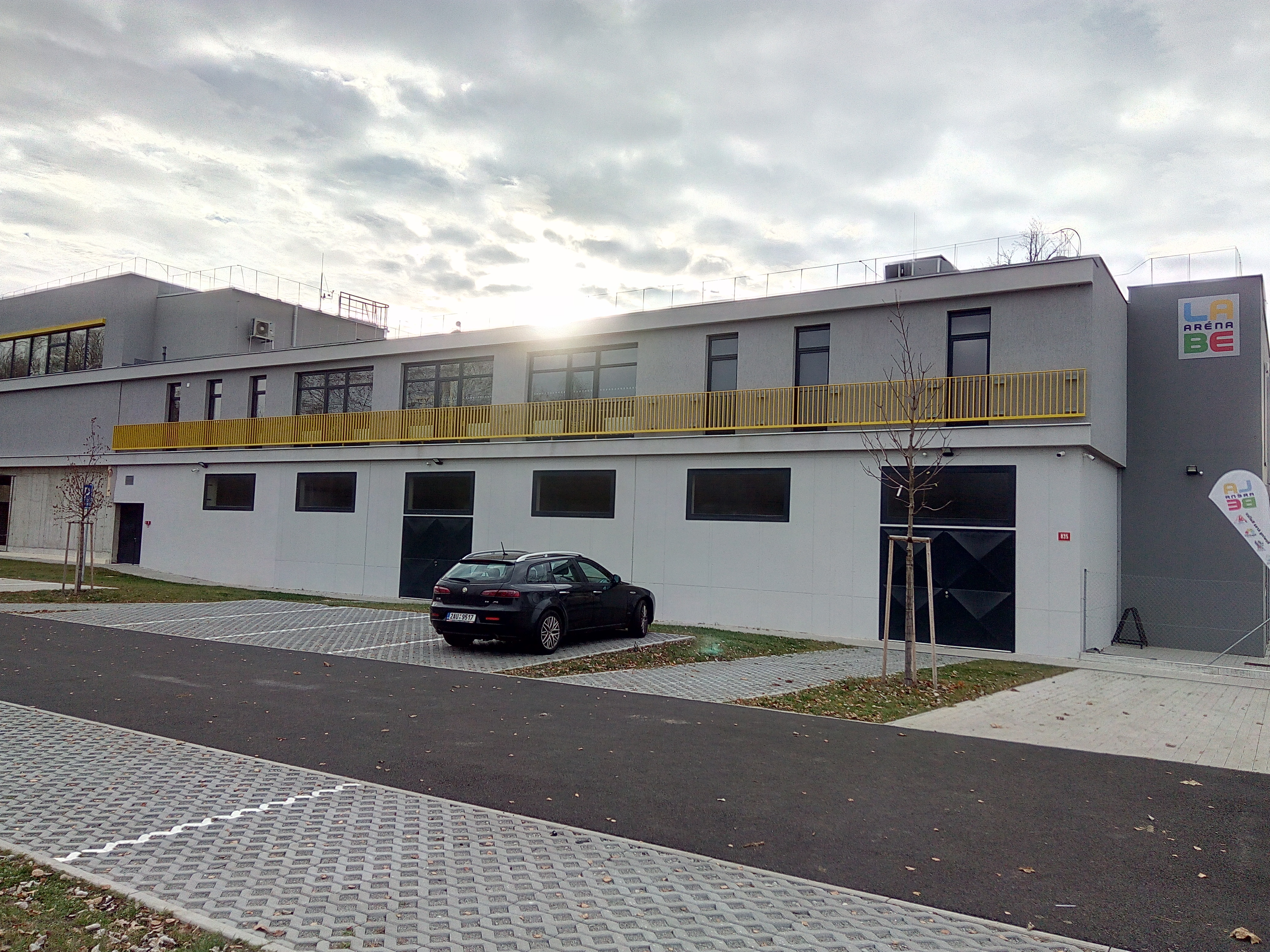 Labe Arena in Štětí